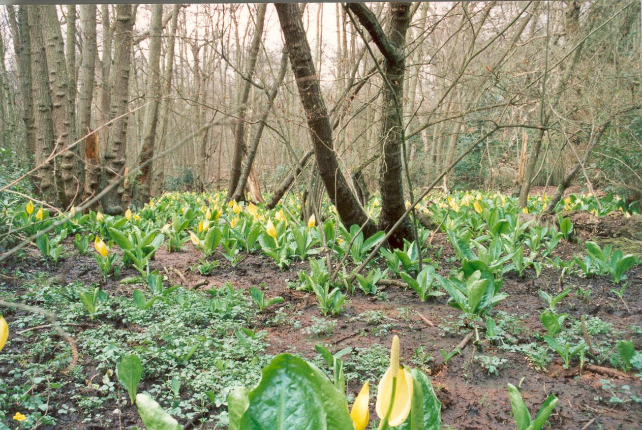 Esher Commons near Esher, Surrey, England